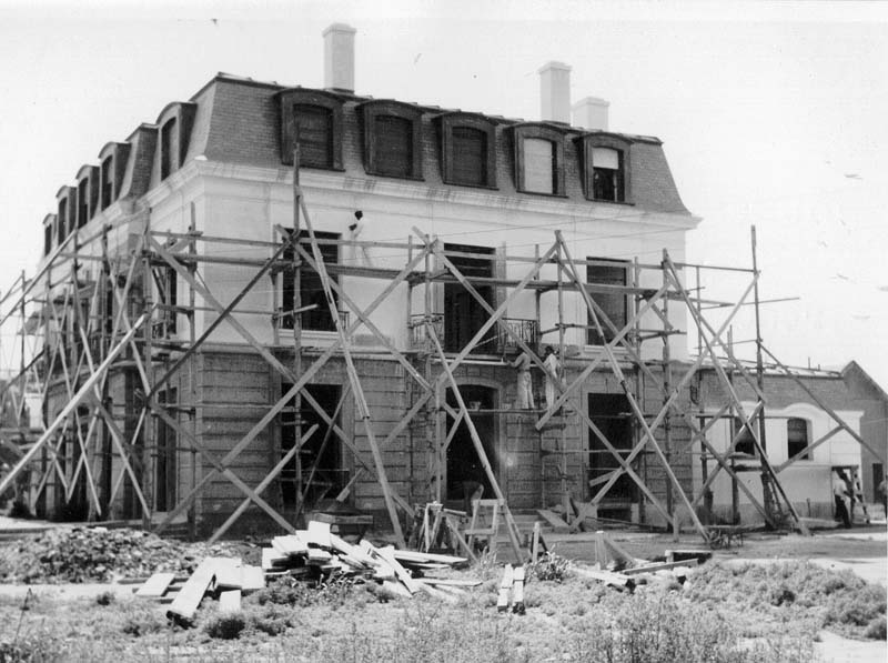 Construction of Residencial pavilion in the early 20th centruy. National University of Cordoba. Cordoba, Argentina.